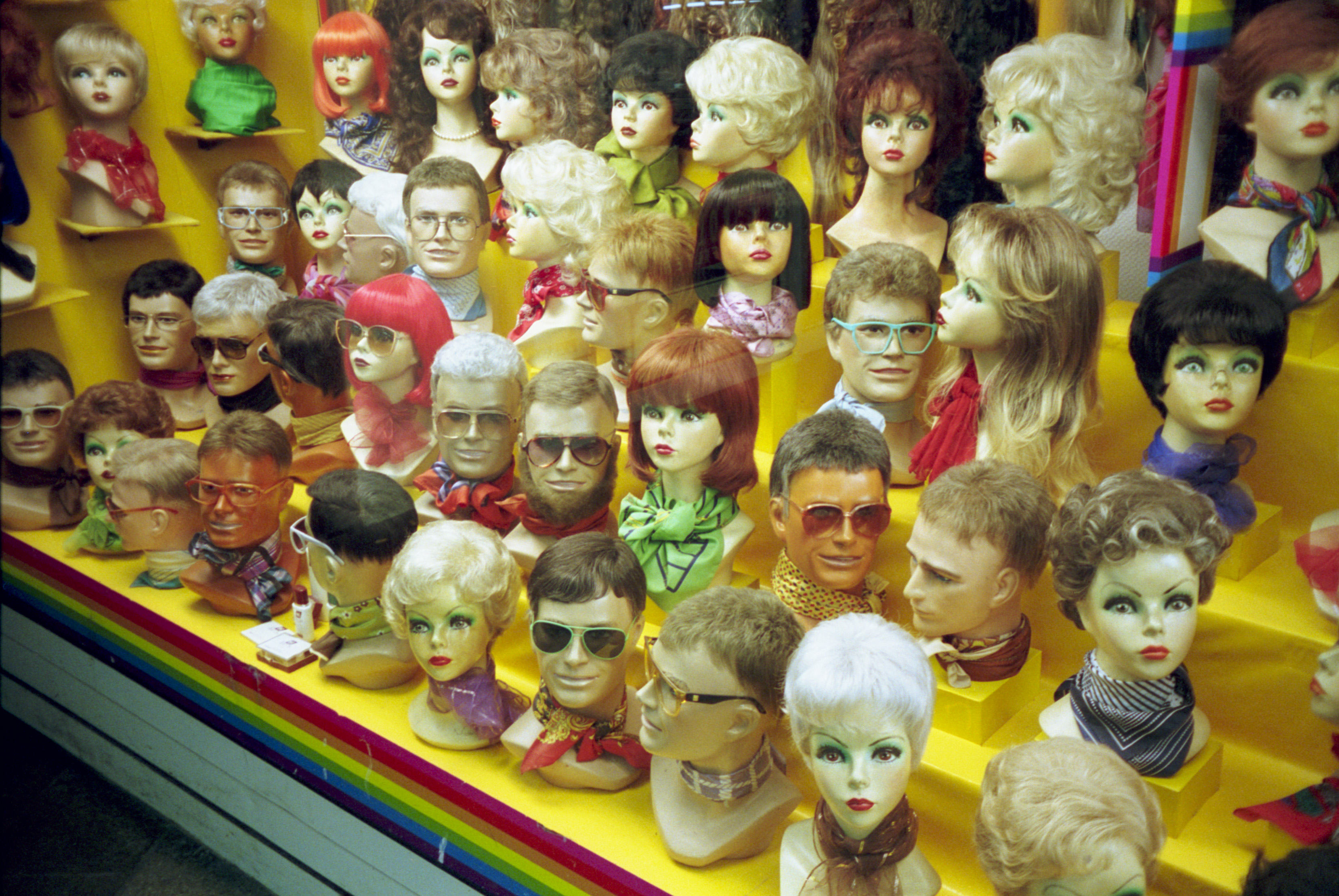 Wig display, Nuremberg, Germany.